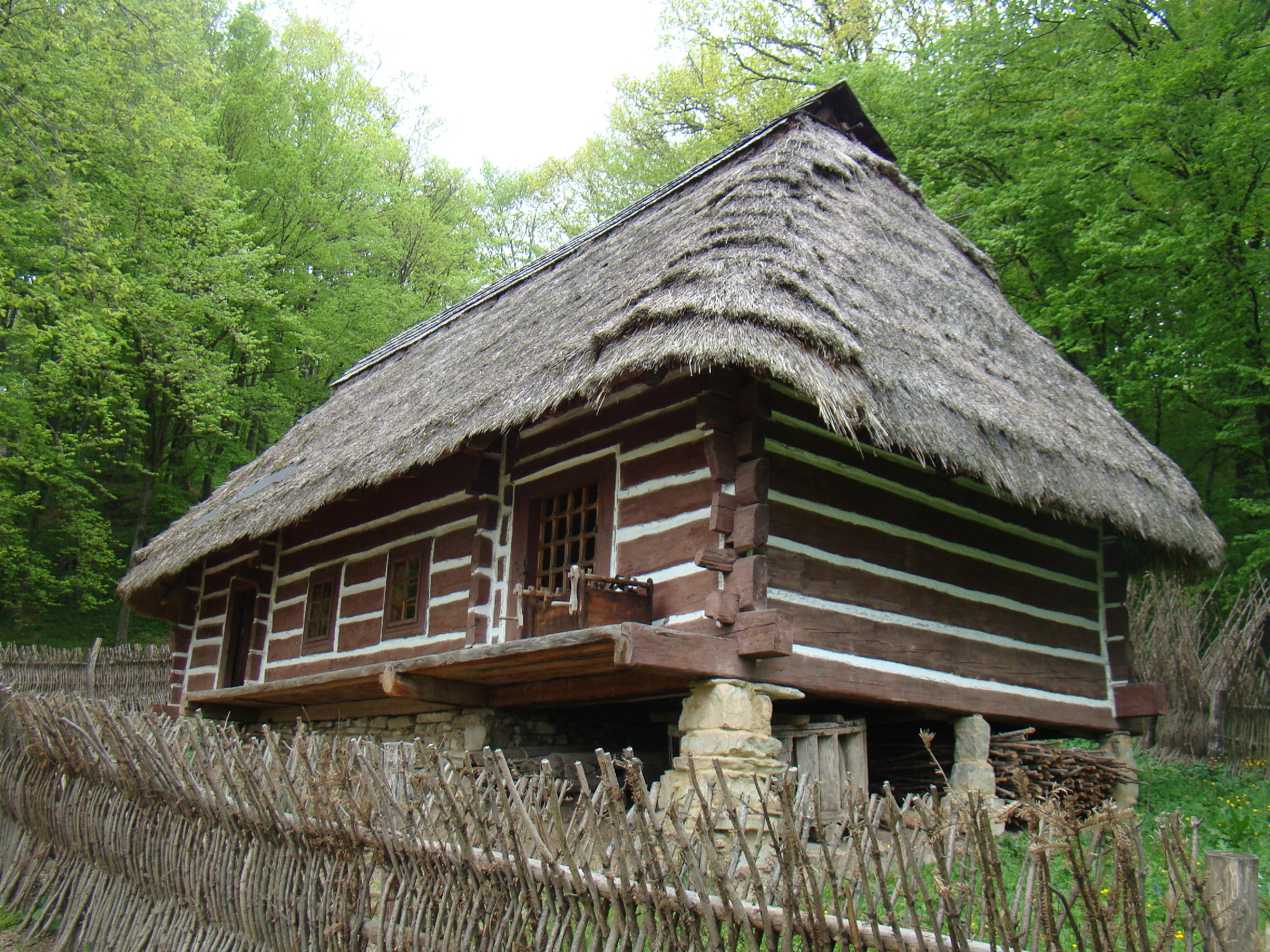 Skansen in Sanok.